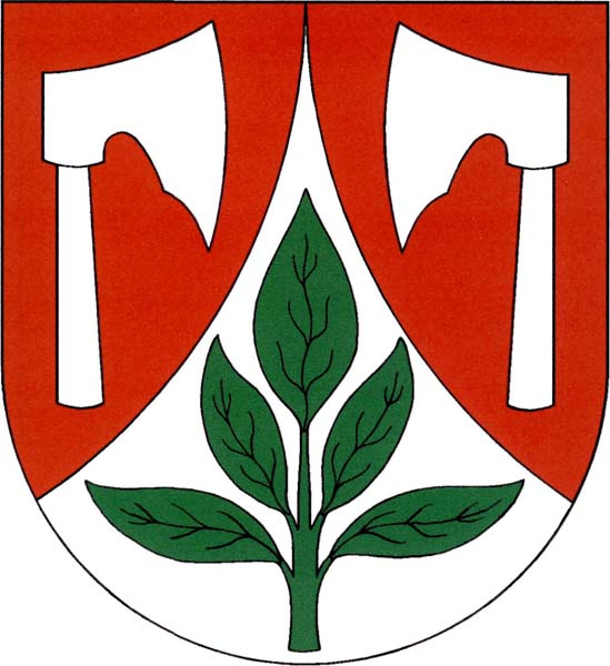 Municipal coat of arms of Proseč pod Ještědem village, Třebíč District, Czech Republic.